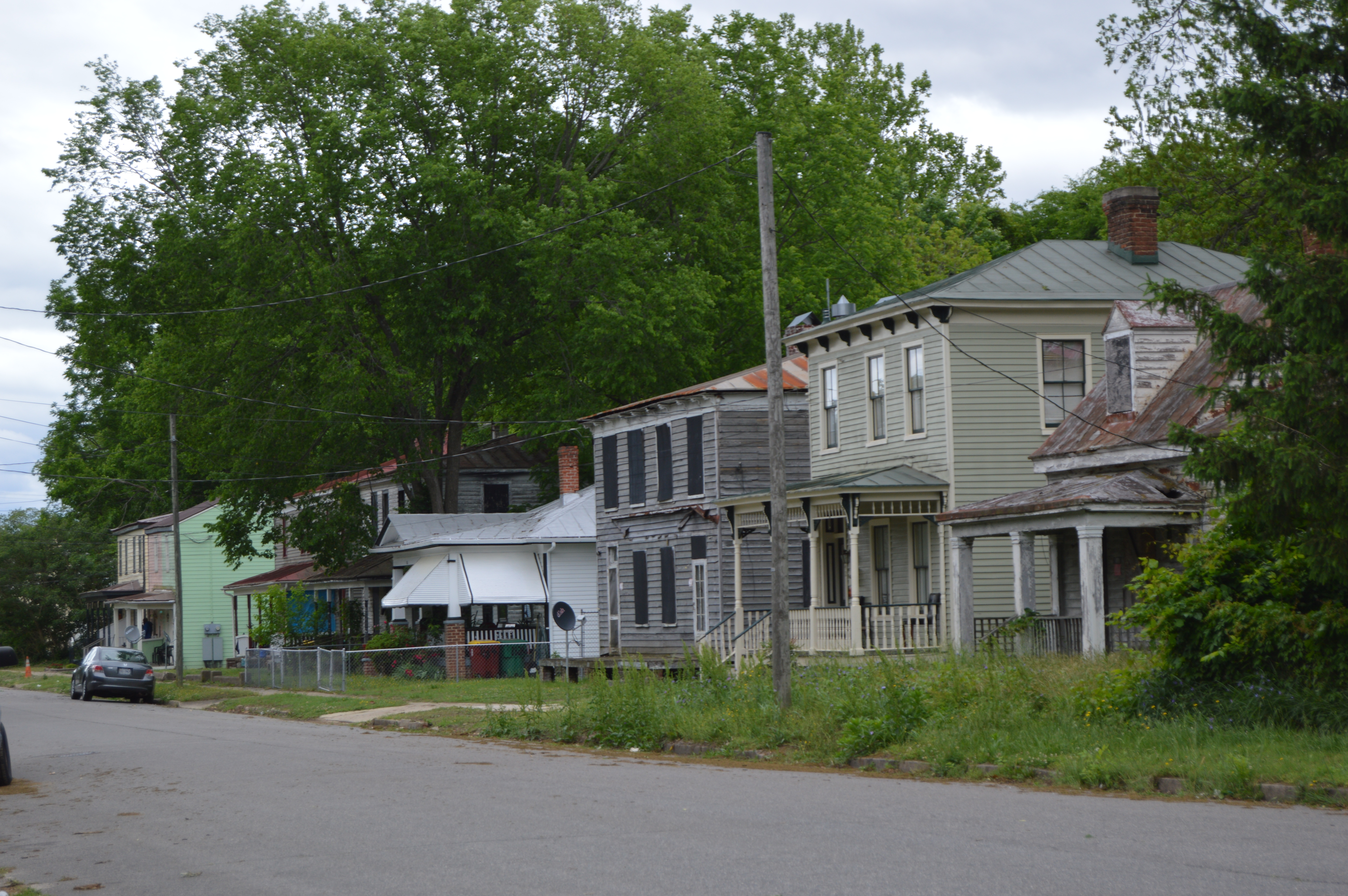 Houses on the southern side of High Street, east of the Bluefield Street intersection, in Petersburg, Virginia, United States. This block is part of the North Battersea-Pride's Field Historic District, a historic district that is listed on the National Register of Historic Places.